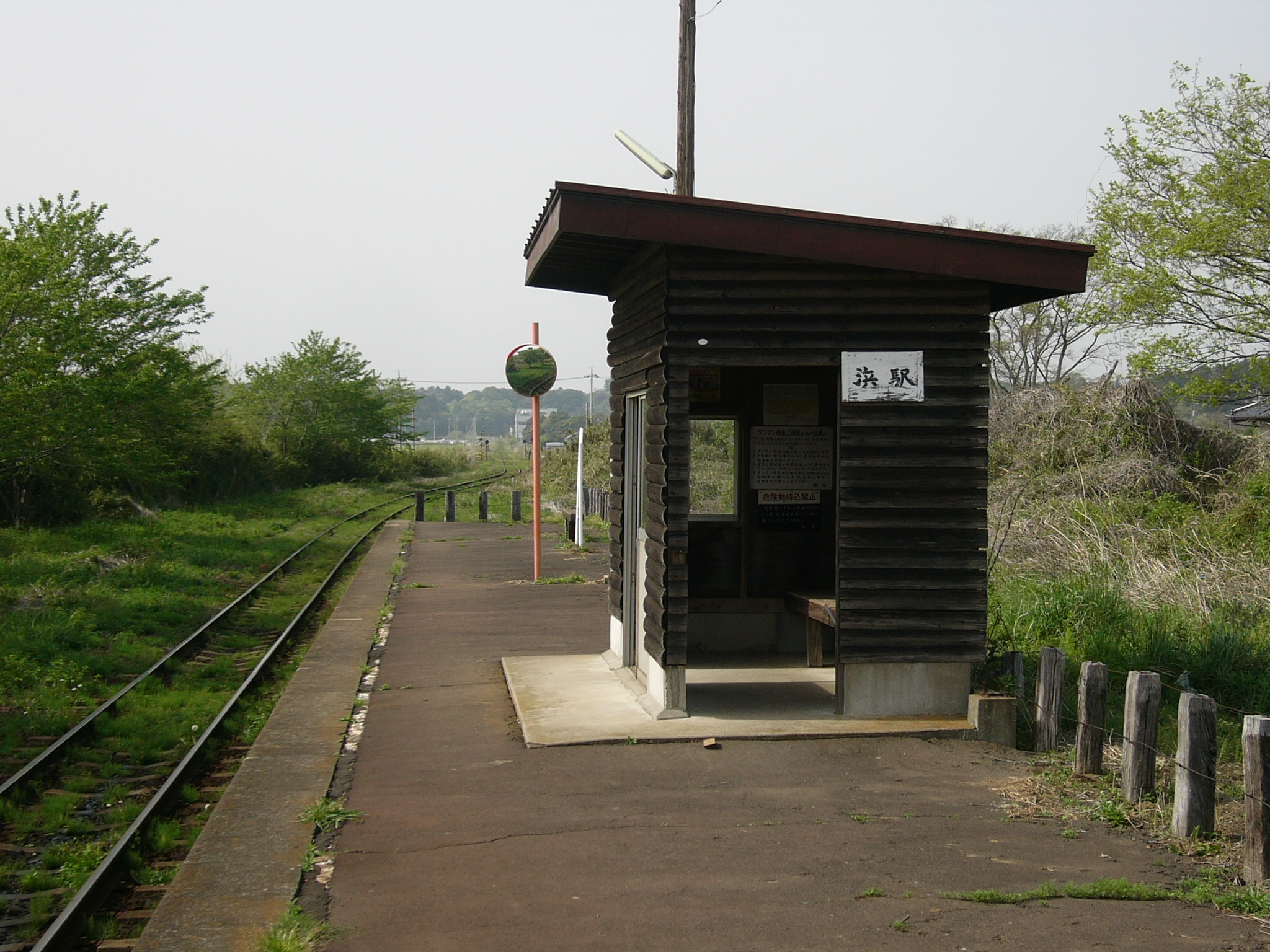 Hama Station